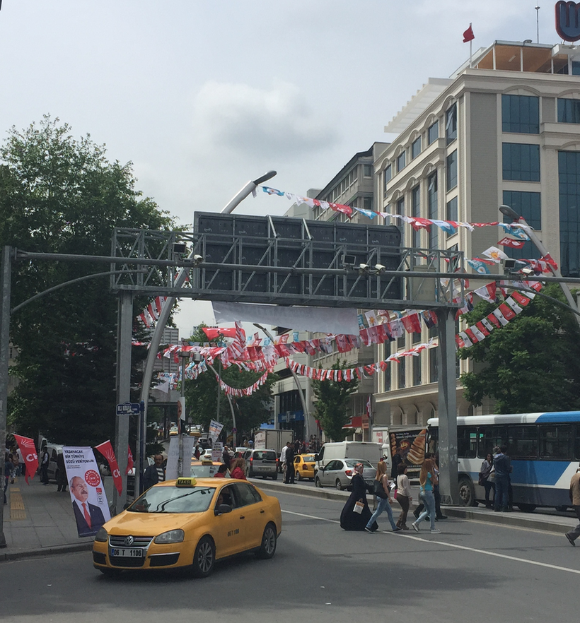 Political party flags and adverts at Kızılay, Ankara, 5 June 2015.